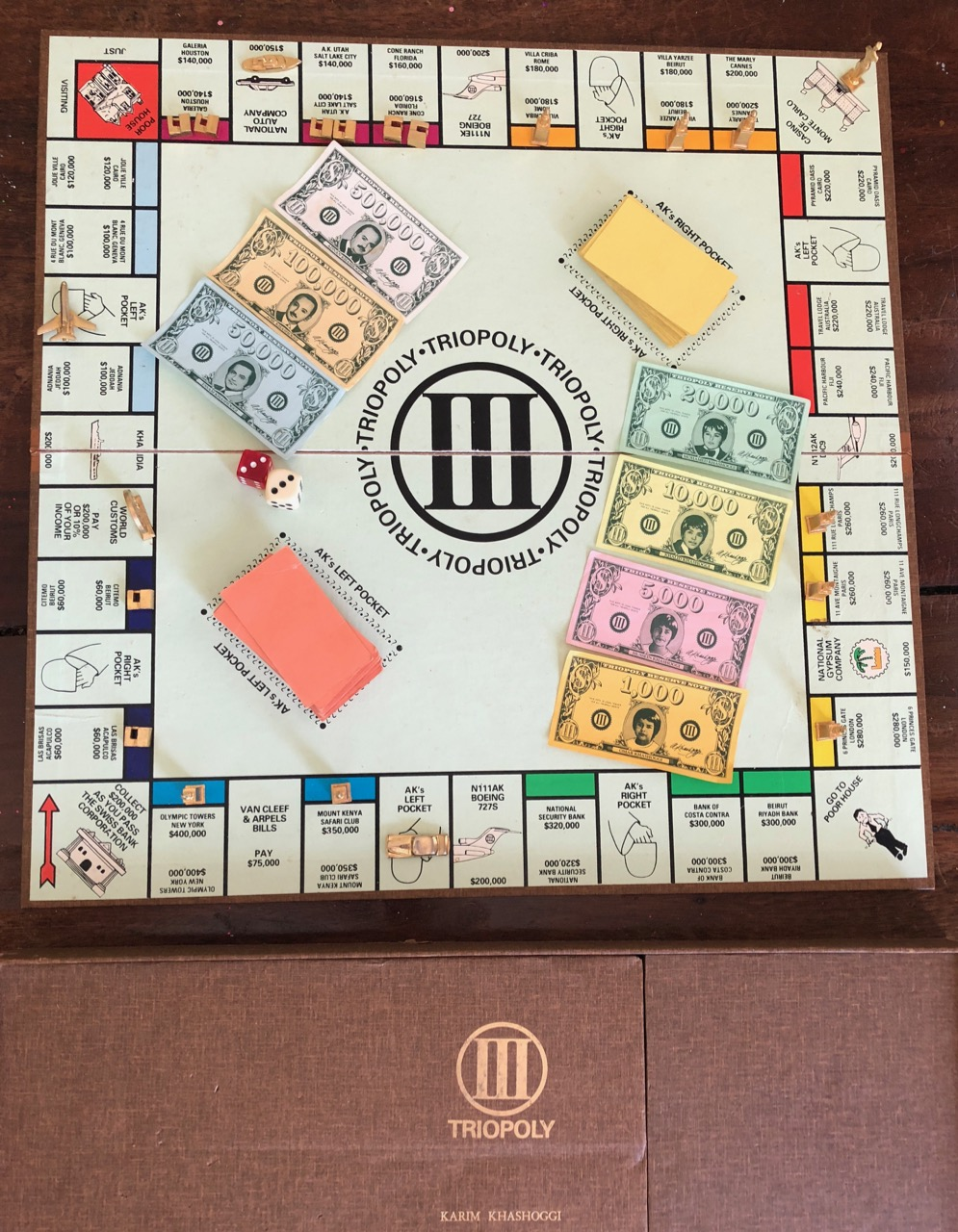 Adnan Khashoggi Triad Triopoly custom made Board Game